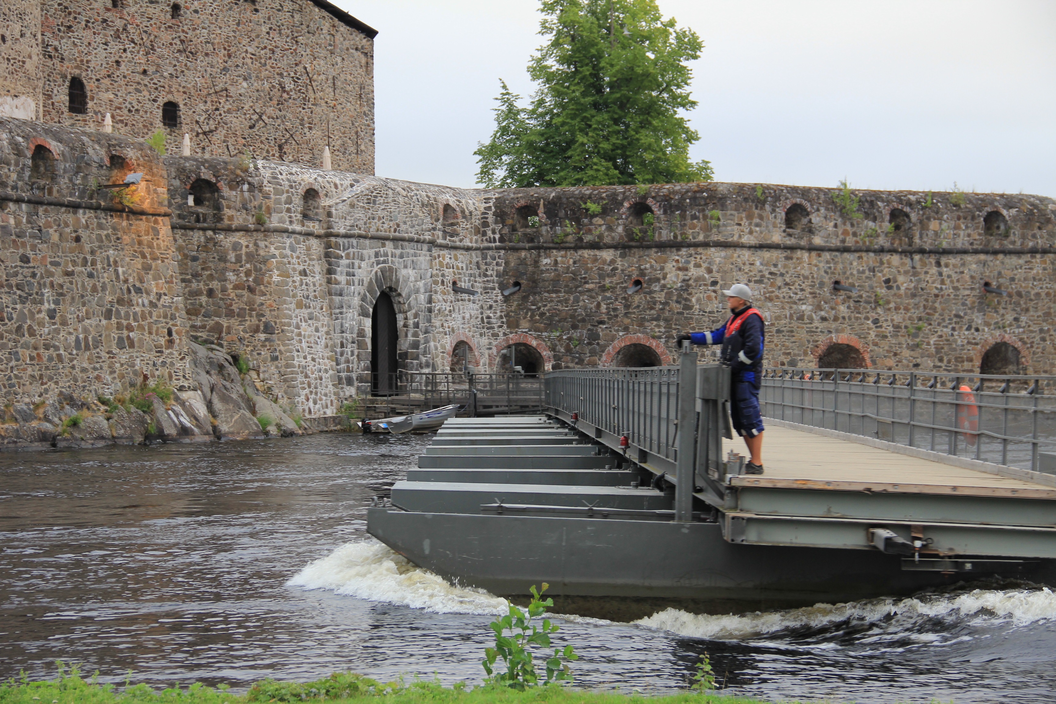 Kyrönsalmi swing pontoon bridge, Savonlinna, Finland. - Bridge swinging back..